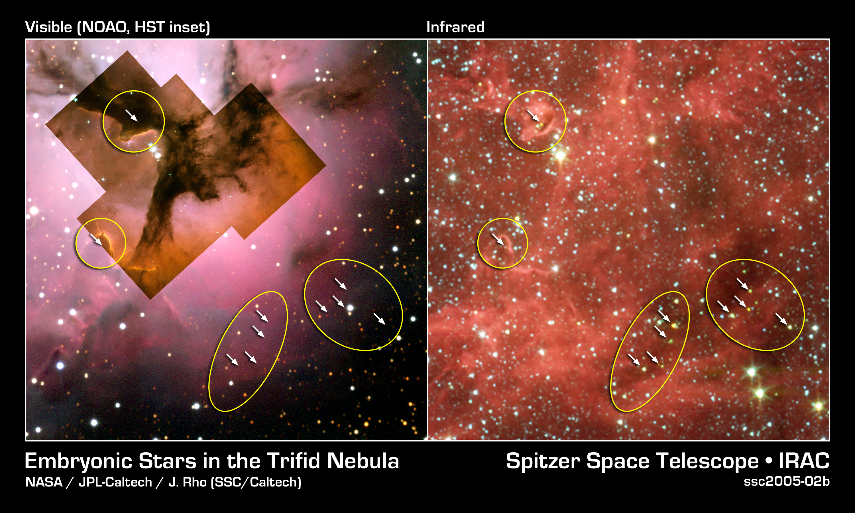 This image composite compares visible-light views with an infrared view from NASA's Spitzer Space Telescope of the glowing Trifid Nebula, a giant star-forming cloud of gas and dust located 5,400 light-years away in the constellation Sagittarius. Visible-light images of the Trifid taken with NASA's Hubble Space Telescope, Baltimore, Md. (inside left) and the National Optical Astronomy Observatory, Tucson, Ariz., (outside left) show a murky cloud lined with dark trails of dust. Data of this same region from the Institute for Radioastronomy millimeter telescope in Spain revealed four dense knots, or cores, of dust (outlined by yellow circles), which are "incubators" for embryonic stars. Astronomers thought these cores were not yet ripe for stars, until Spitzer spotted the warmth of rapidly growing massive embryos tucked inside. These embryos are indicated with arrows in the false-color Spitzer picture (right), taken by the telescope's infrared array camera. The same embryos cannot be seen in the visible-light pictures (left). Spitzer found clusters of embryos in two of the cores and only single embryos in the other two. This is one of the first times that multiple embryos have been observed in individual cores at this early stage of stellar development.